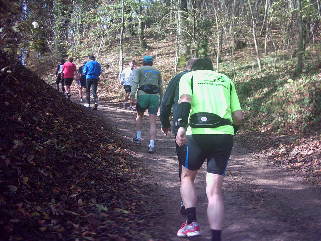 19th Albmarathon 2009. Runners up to the top of Hohenstaufen at Kilometer 17.